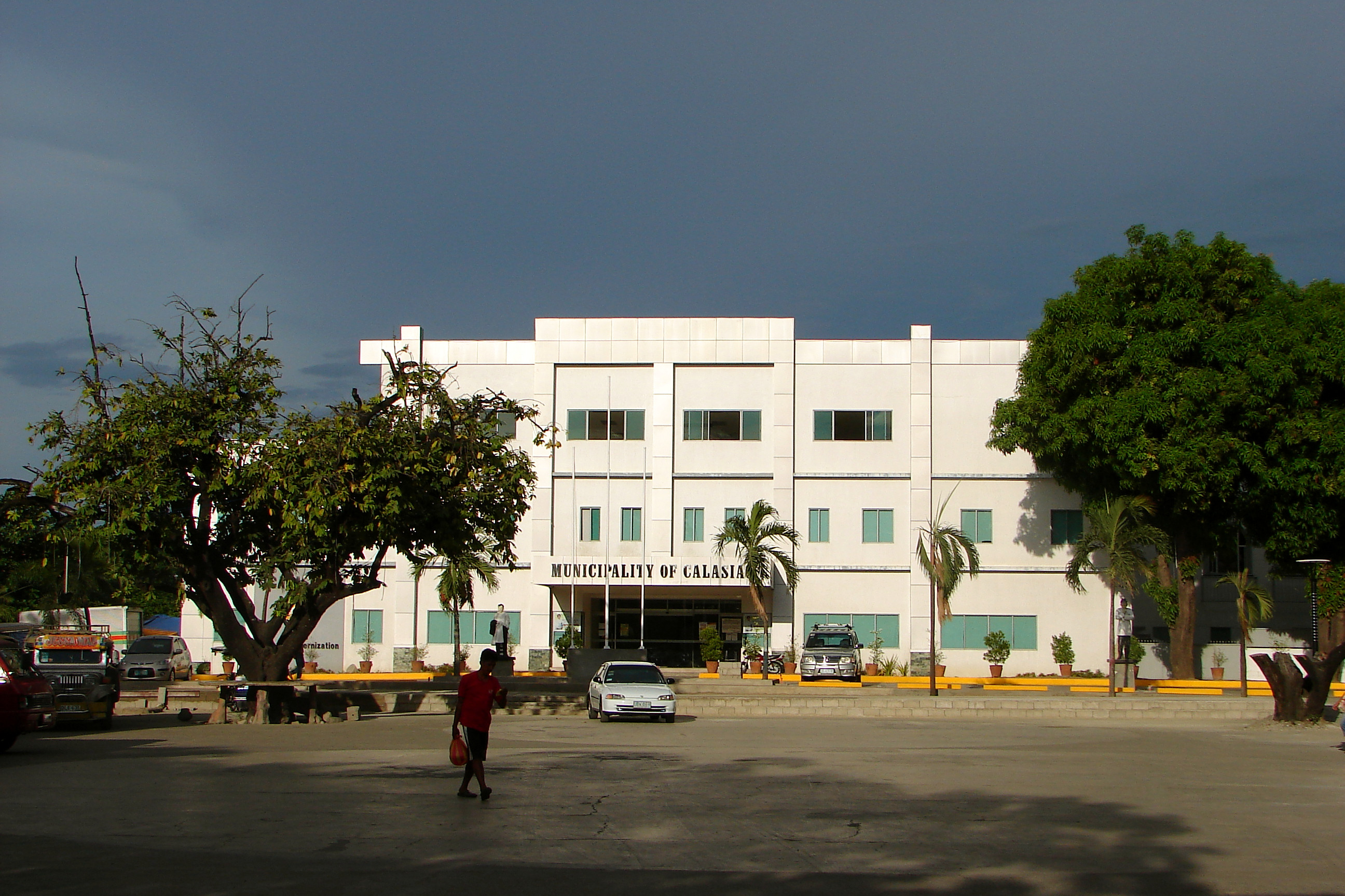 Municipal office of Calasiao, Pangasinan, Philippines